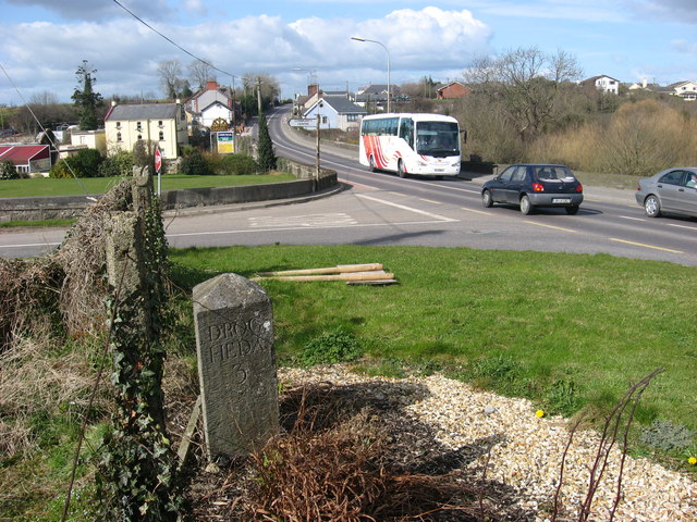 Milestone 20 at Julianstown The milestone reads 'DROGHEDA 3' on the near side; '20' on the front and 'MAN OF WAR 9' on the far side. In background, the Dublin-bound bus is on the bridge over the River Nanny.